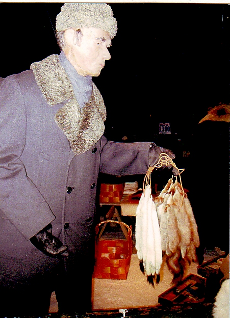 Fur trader in Rovaniemi, museum Arctikum